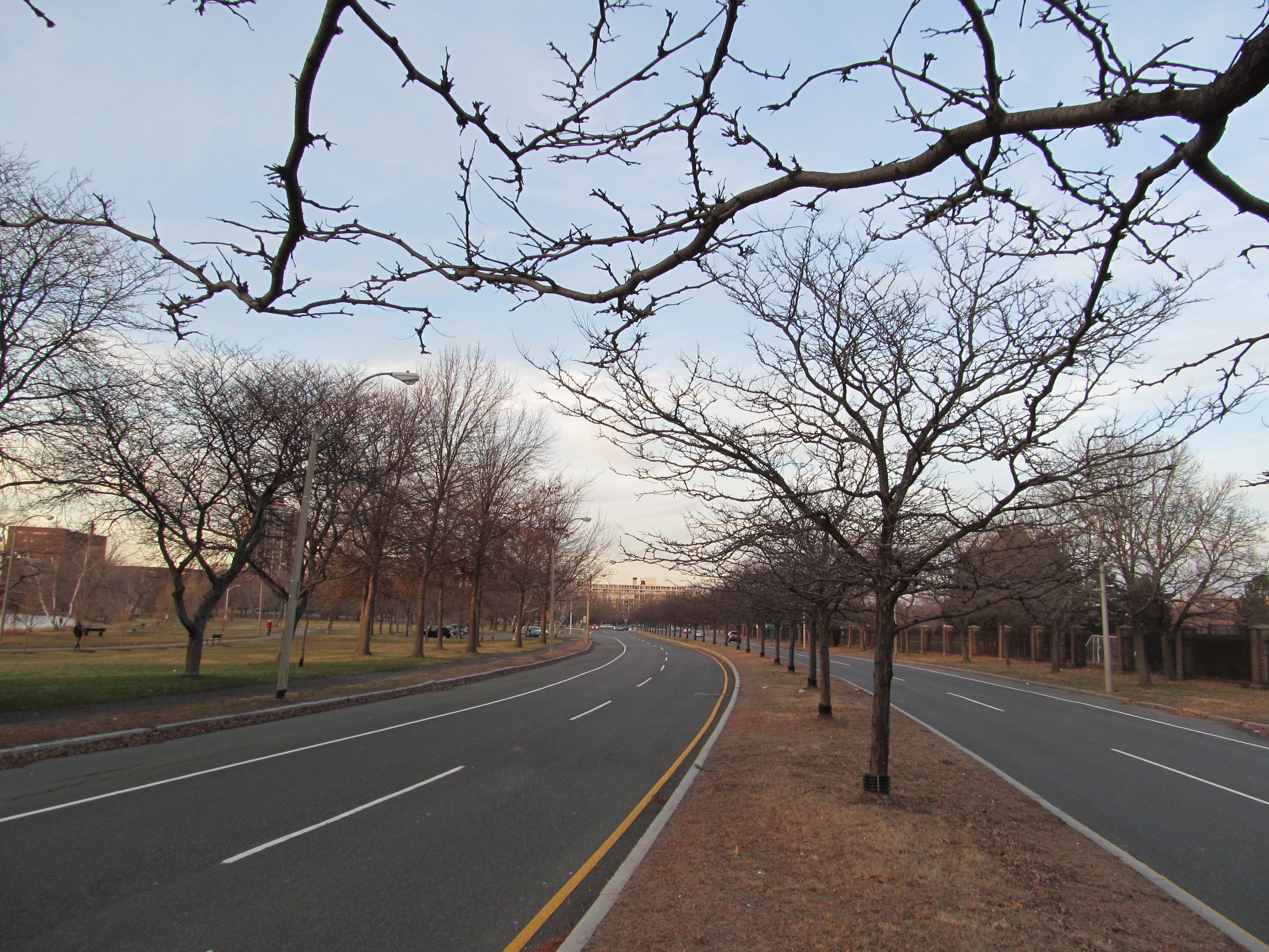 Soldiers Field Road eastbound, Allston Massachusetts